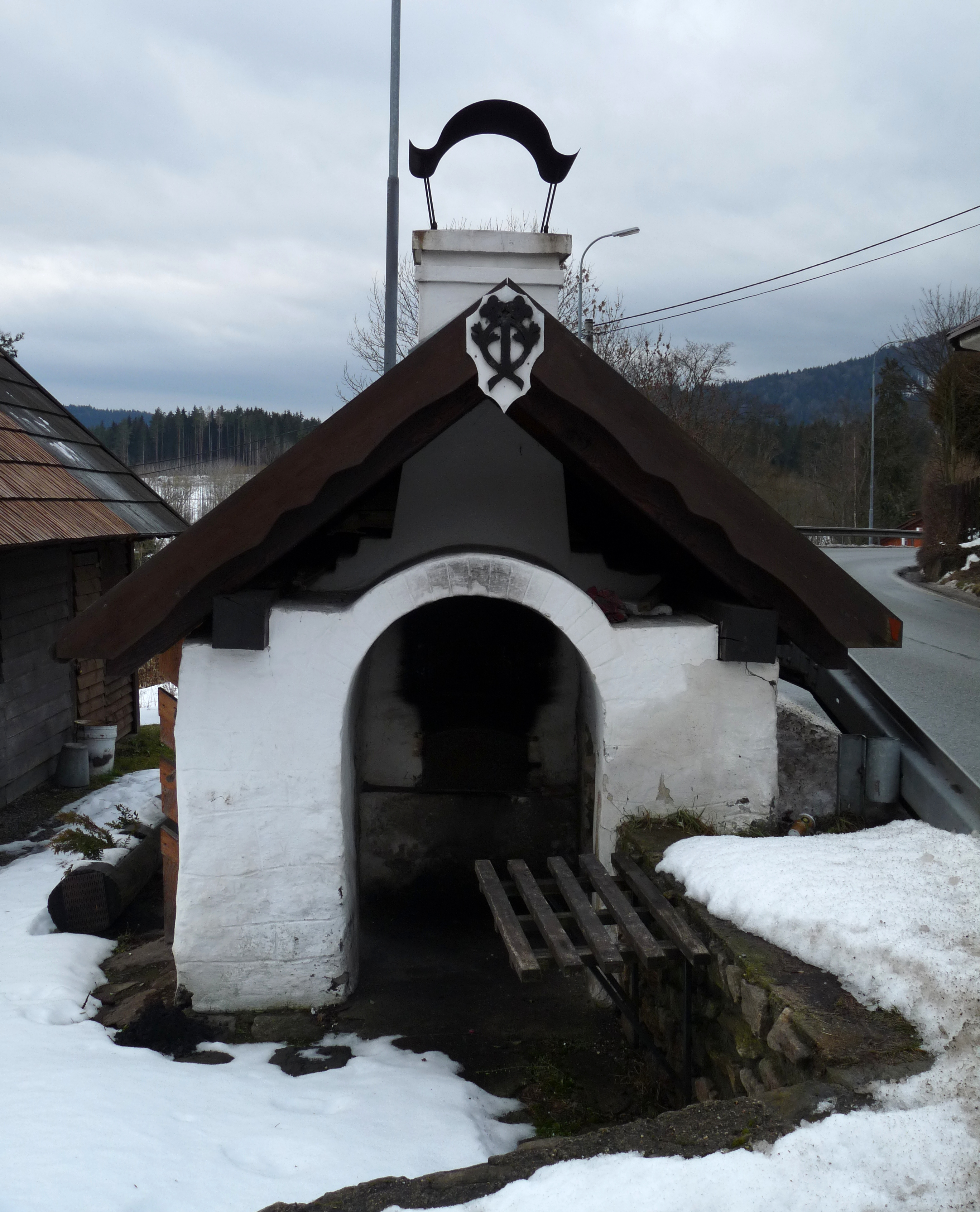 Bread oven in the village of Lenora, Prachatice District, South Bohemian Region, Czech Republic.